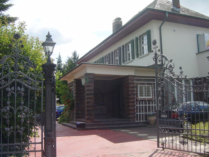 Villa Scheid, Sitz der RISUS GmbH